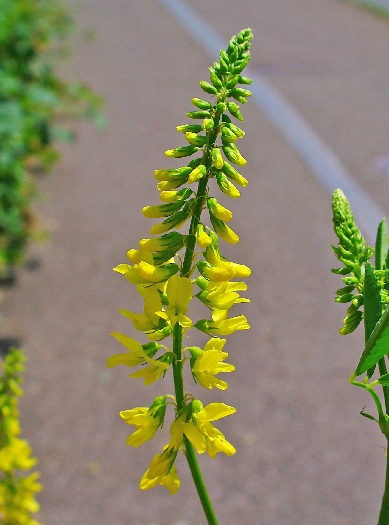 Melilotus officinalis, Fabaceae, Yellow Sweet Clover, Yellow Melilot, Common Melilot, inflorescence; Karlsruhe, Germany.